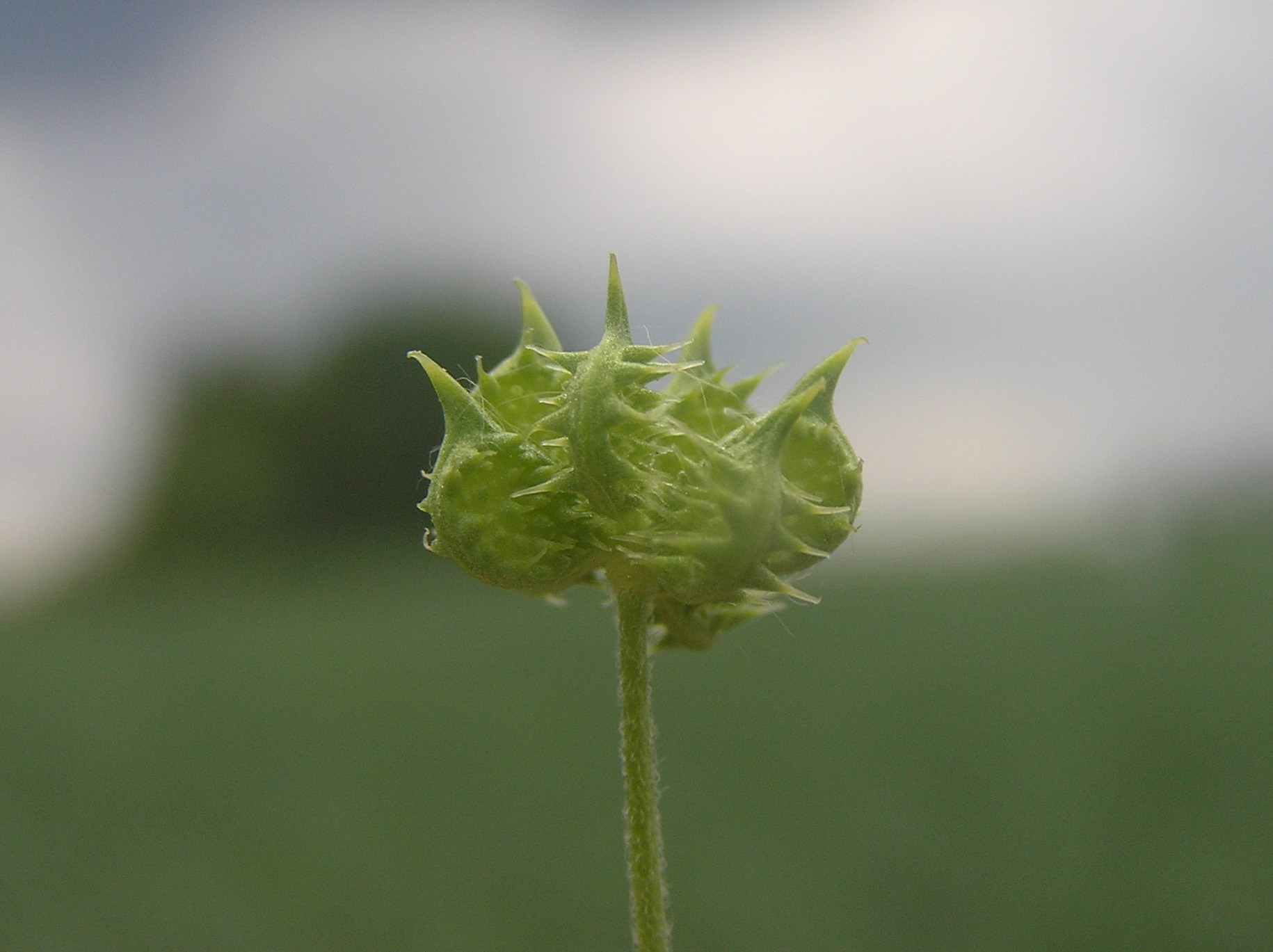 Ranunculus arvensis, Valašské Klobouky, Czech Republic